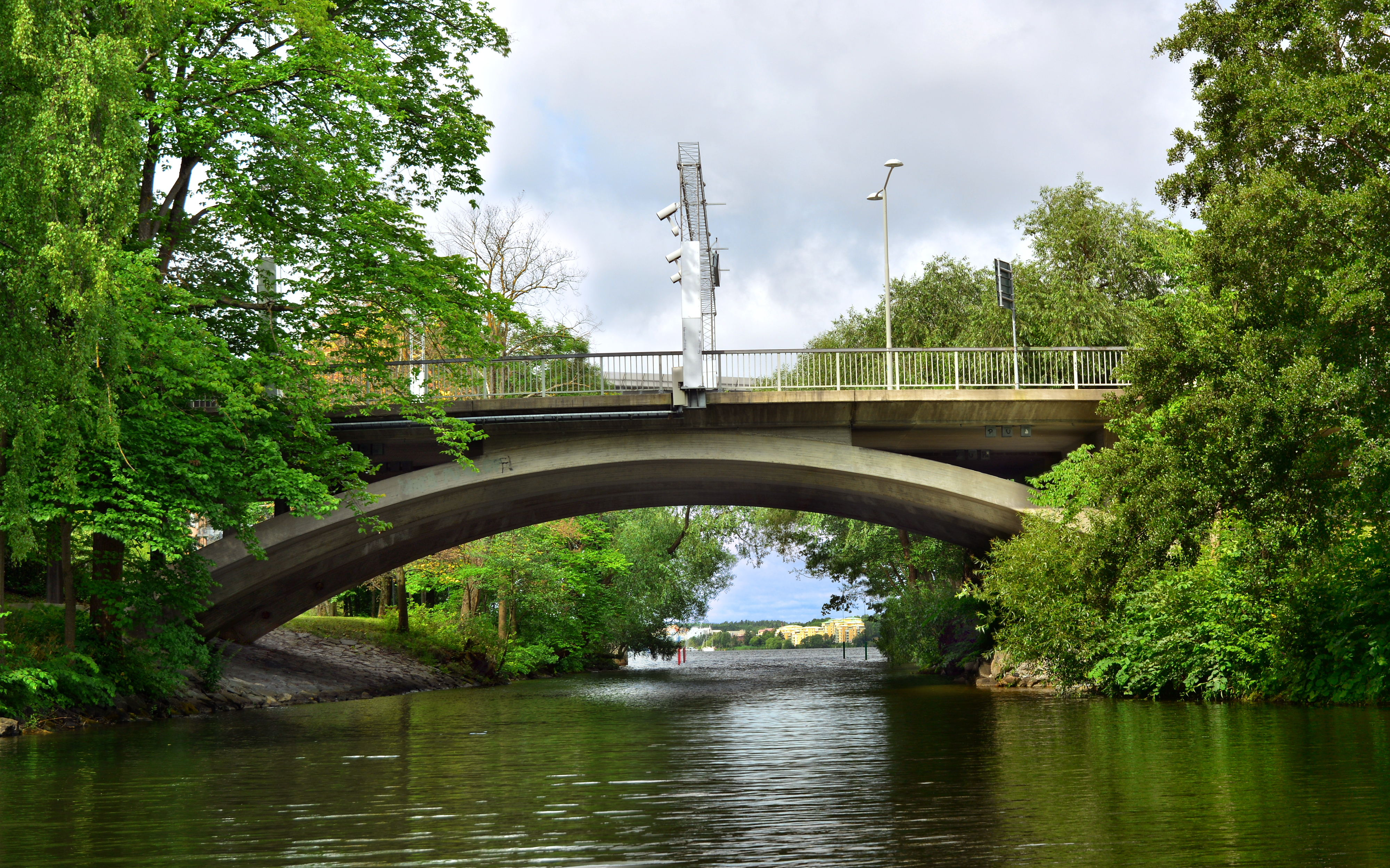 Ekelundsbron in Stockholm, Sweden